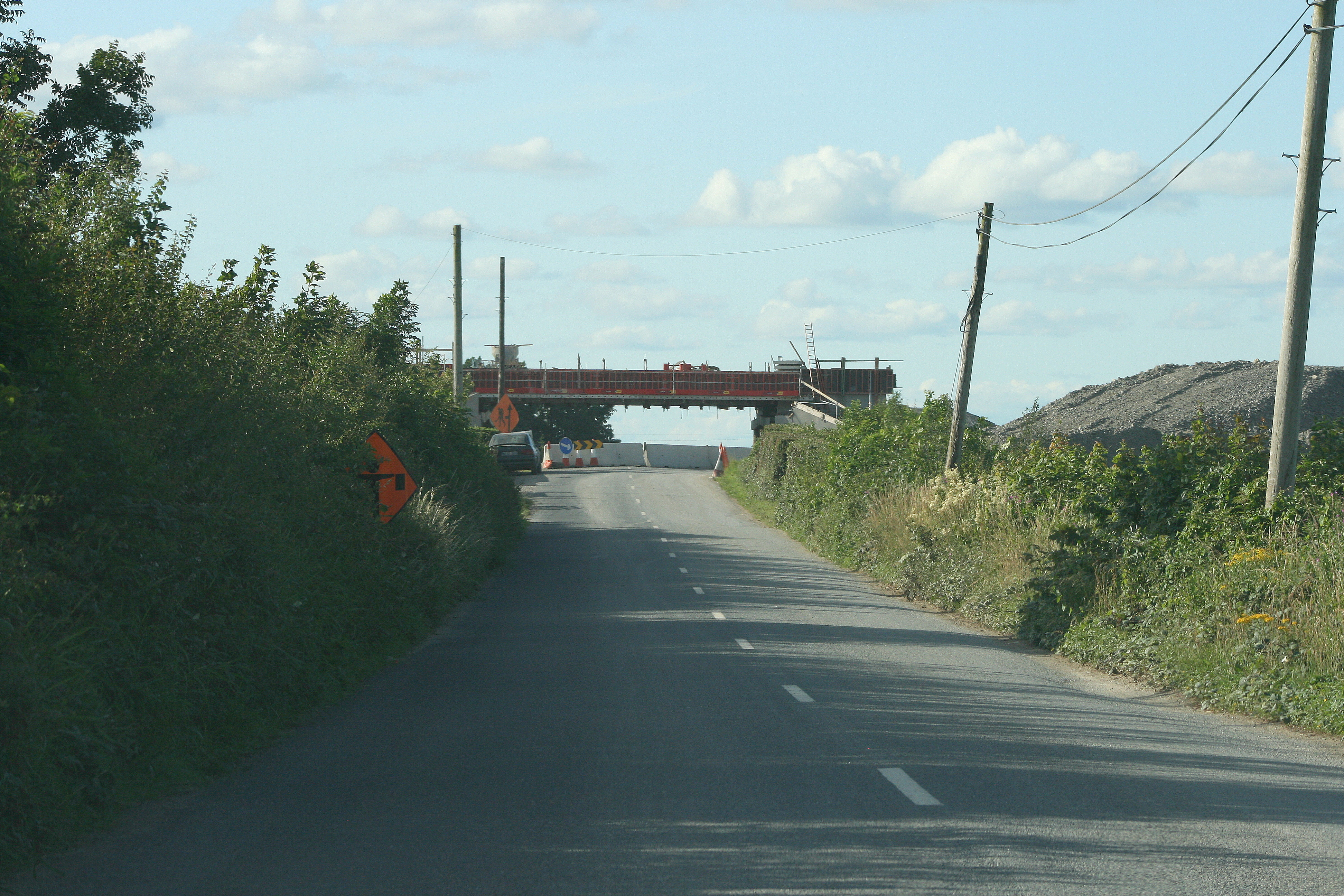 The R490 road in County Offaly; M7 motorway overbridge under construction near Moneygall.